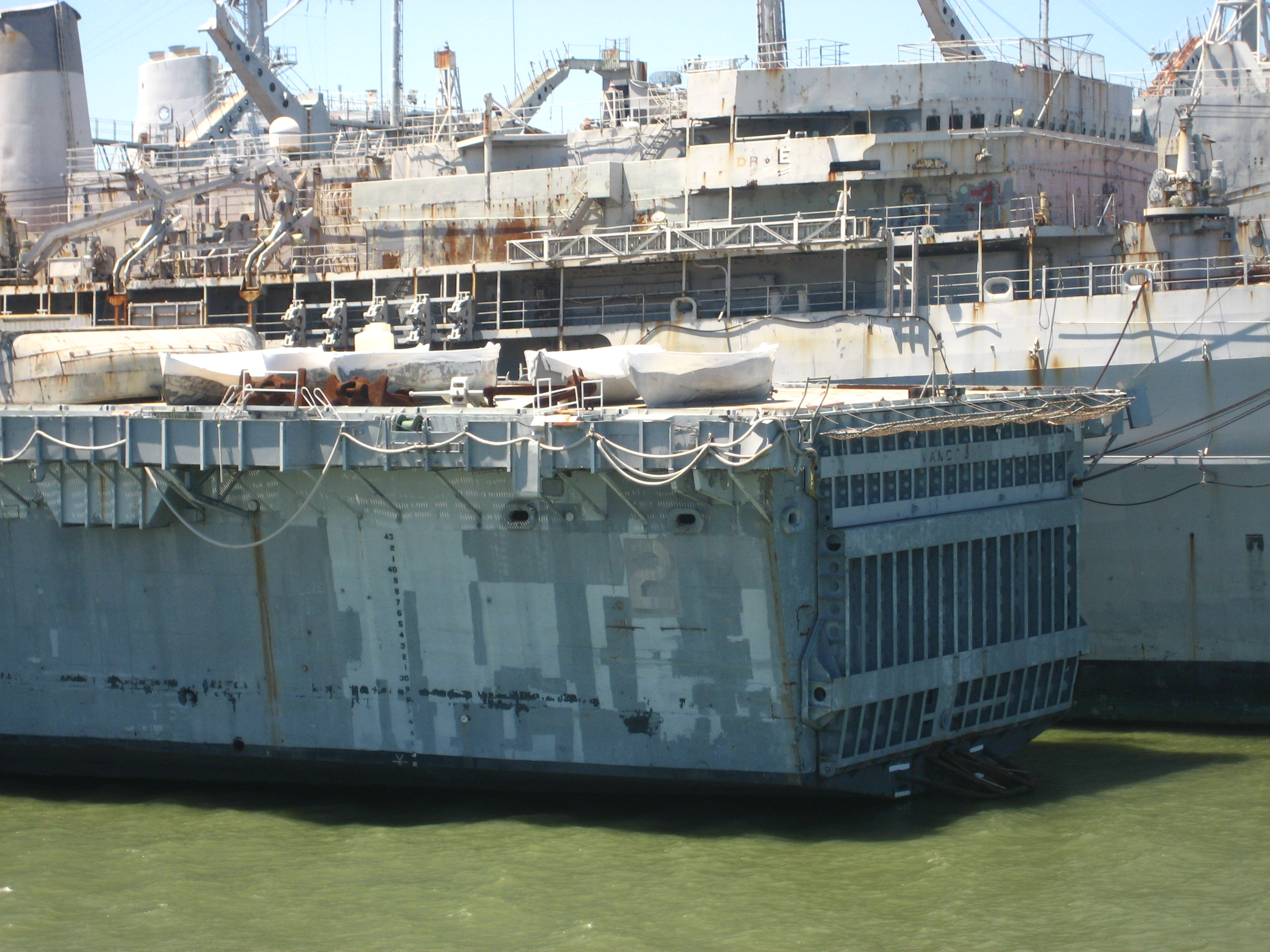 USS Vancouver (LPD-2) as she appears today, Suisun Bay Reserve Fleet (mothball fleet).